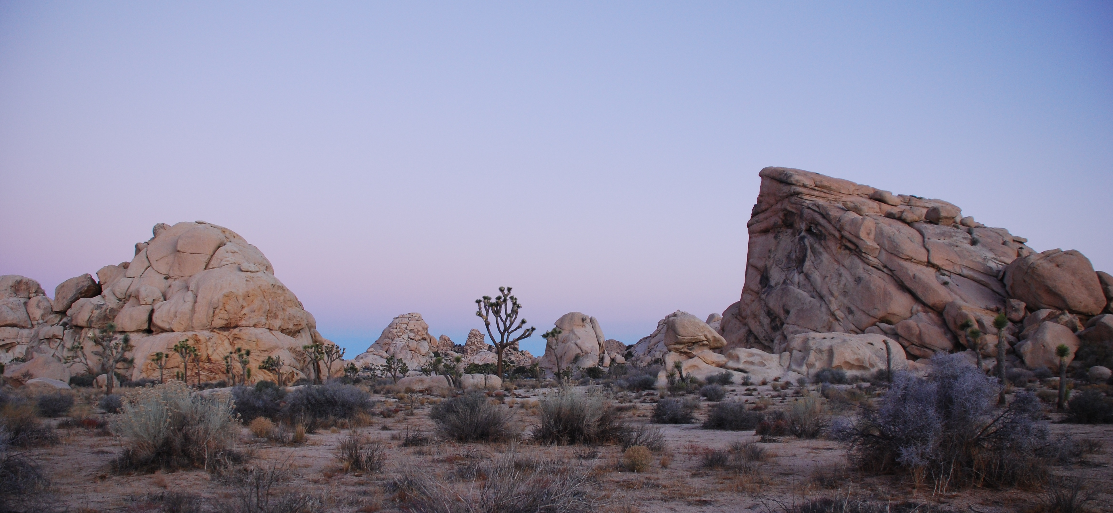 Joshua Tree National Park: Cyclops and Pee Wee Formations near Hidden Valley Campground during civil twilight before sunrise. The receding fringe of Earth's shadow and the Belt of Venus above it are seen in the background sky, low above the horizon.